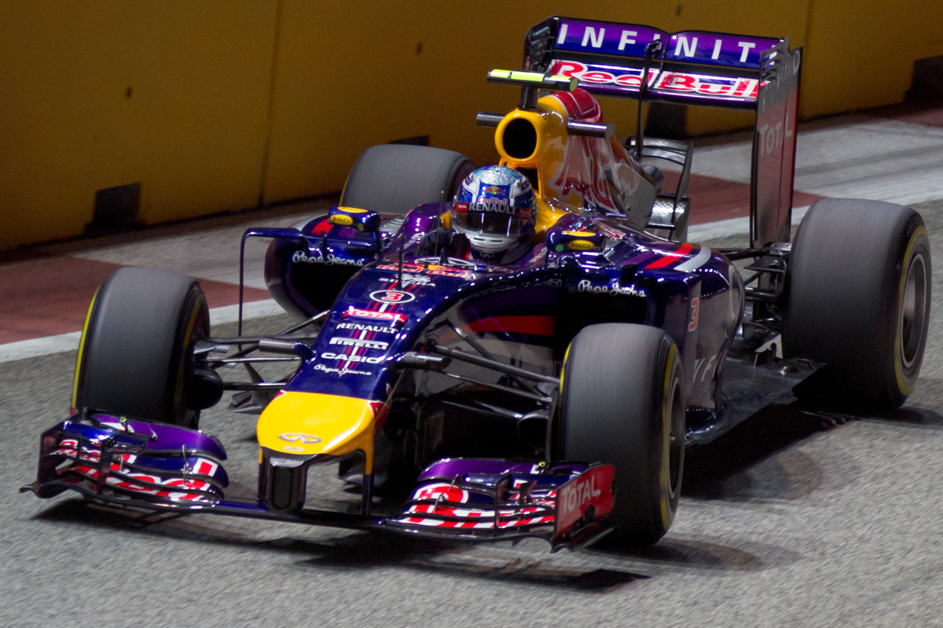 Formula One 2014 Rd.14 Singapore GP: Daniel Ricciardo (Red Bull)